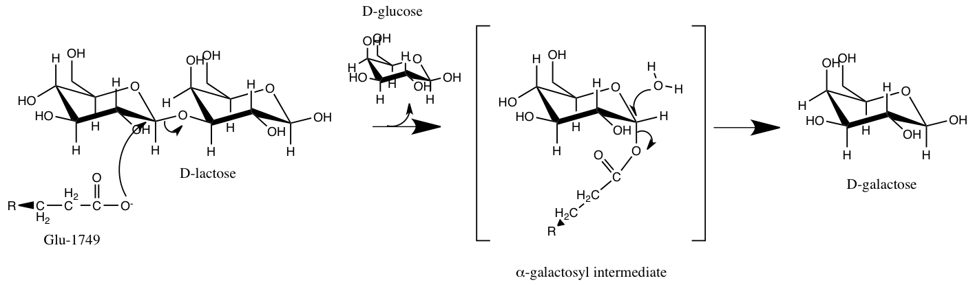 Mechanism of lactose hydrolysis by lactase-phlorizin hydrolase (the molecule labeled as D glucose is D galactose. C4 should be equatorial down.)